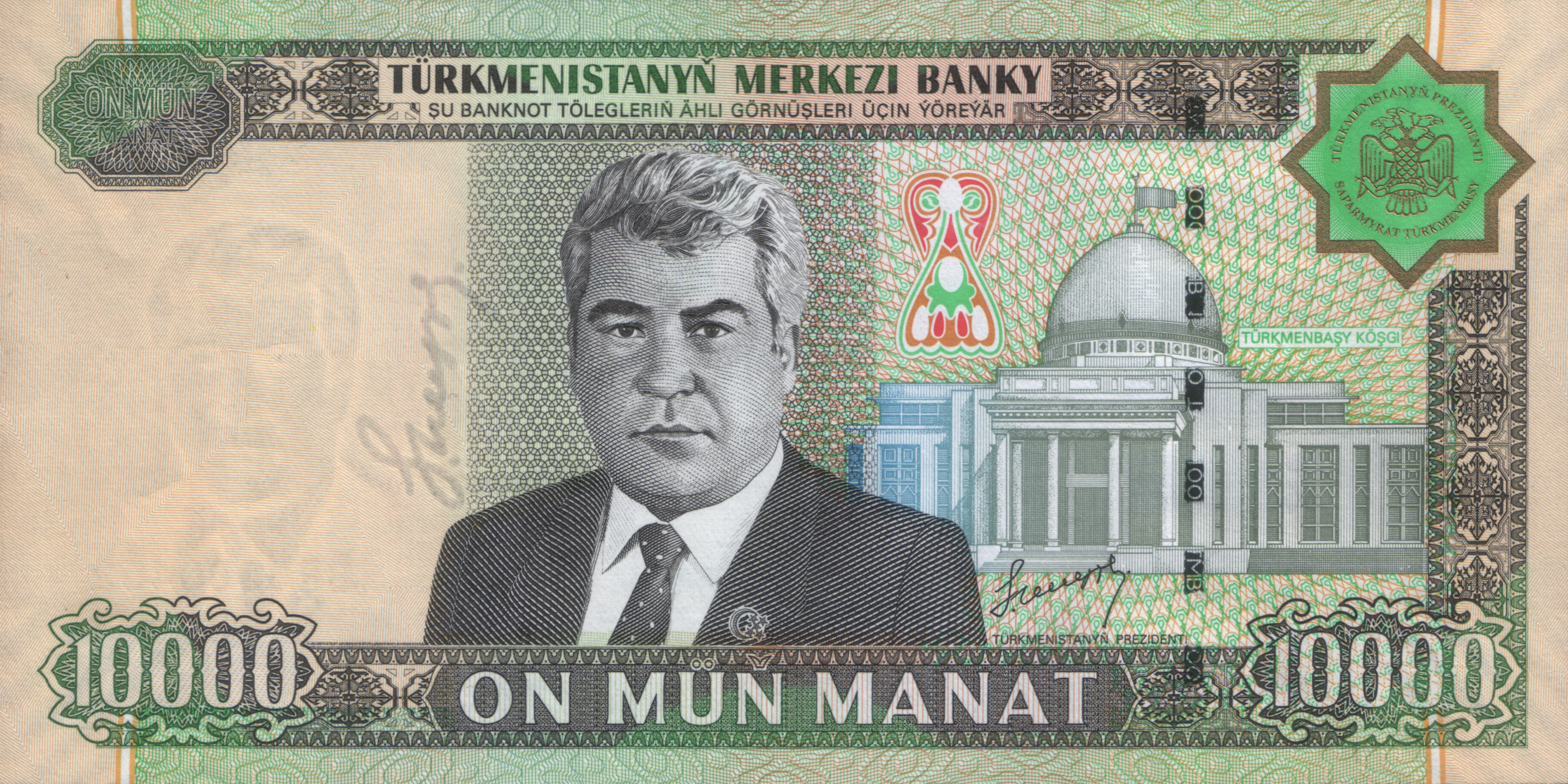 10000 manats of Turkmenistan (2005)